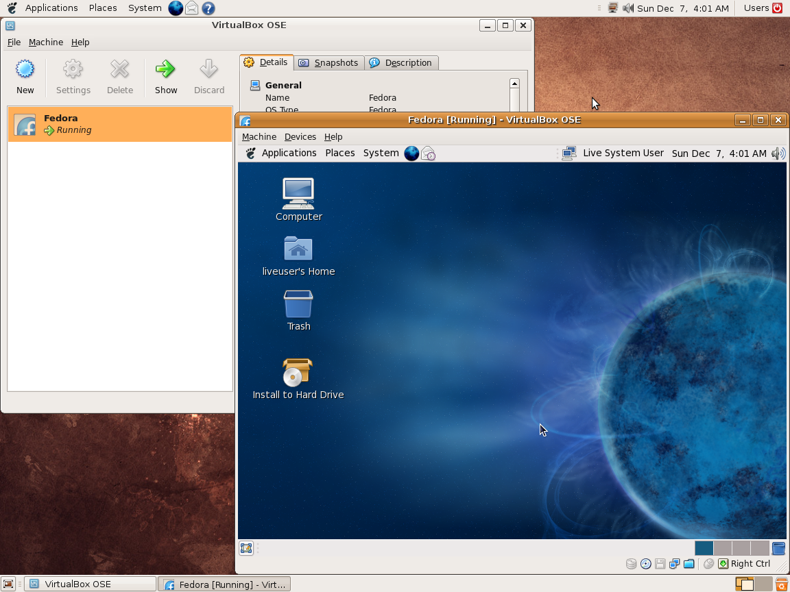 VirtualBox (version 2.0.4_OSE) on Ubuntu (version 8.10), running Fedora (version 10)